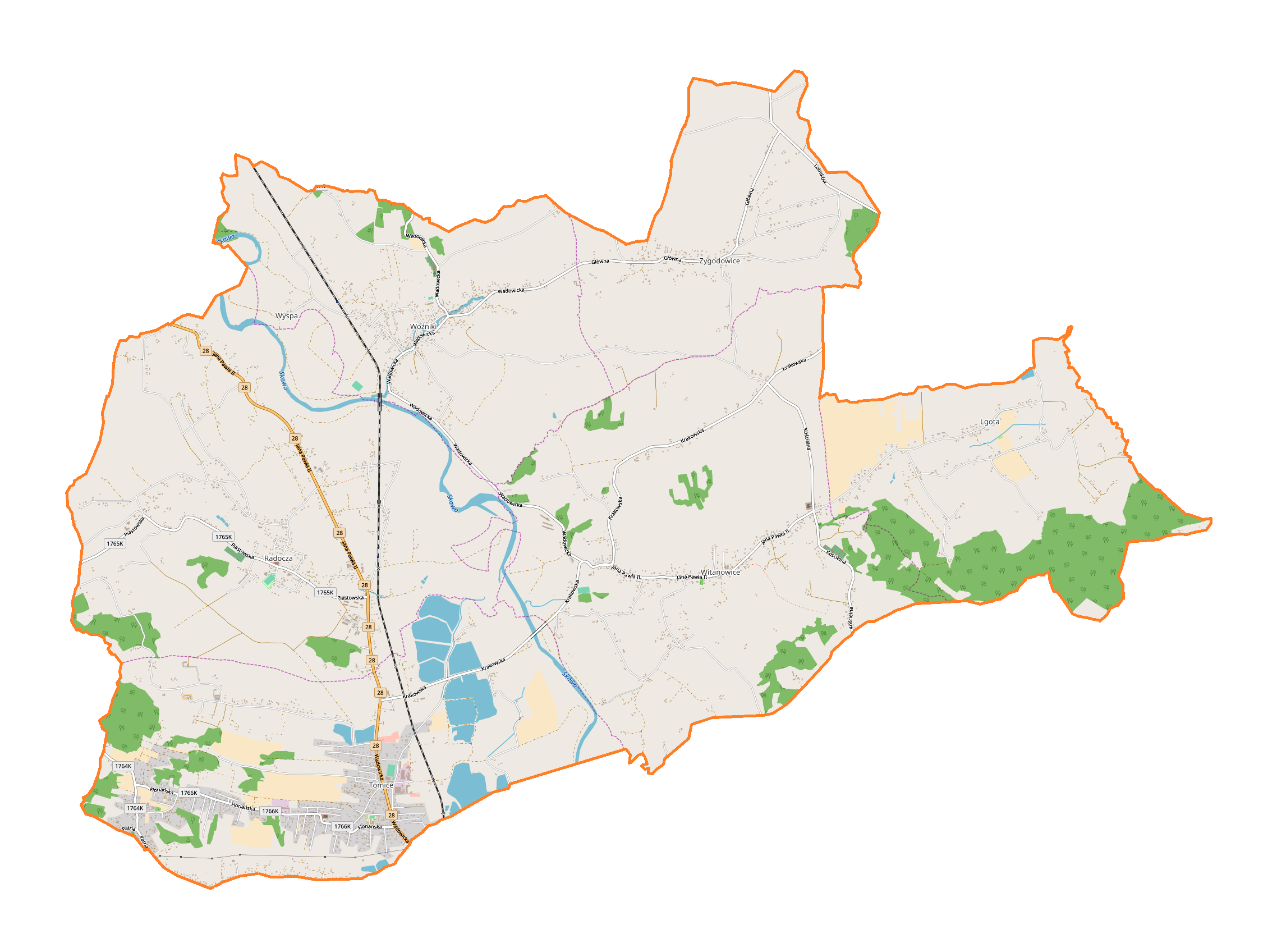 Location map